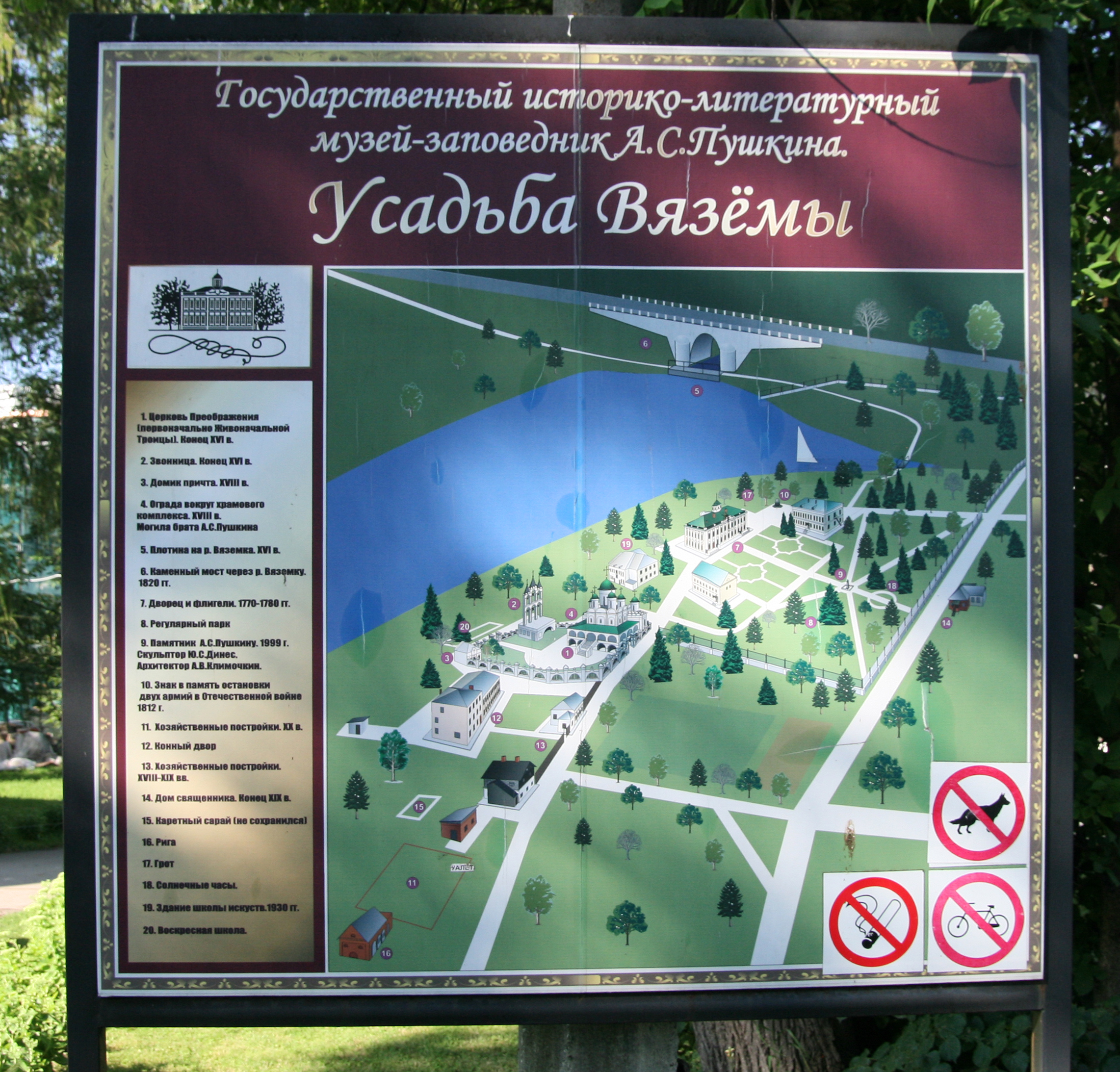 Information board in Vyazqmy Estate